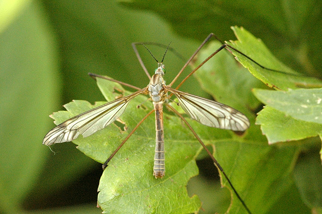 Picture taken in Commanster, Belgian High Ardennes . Species: male Tipula luna